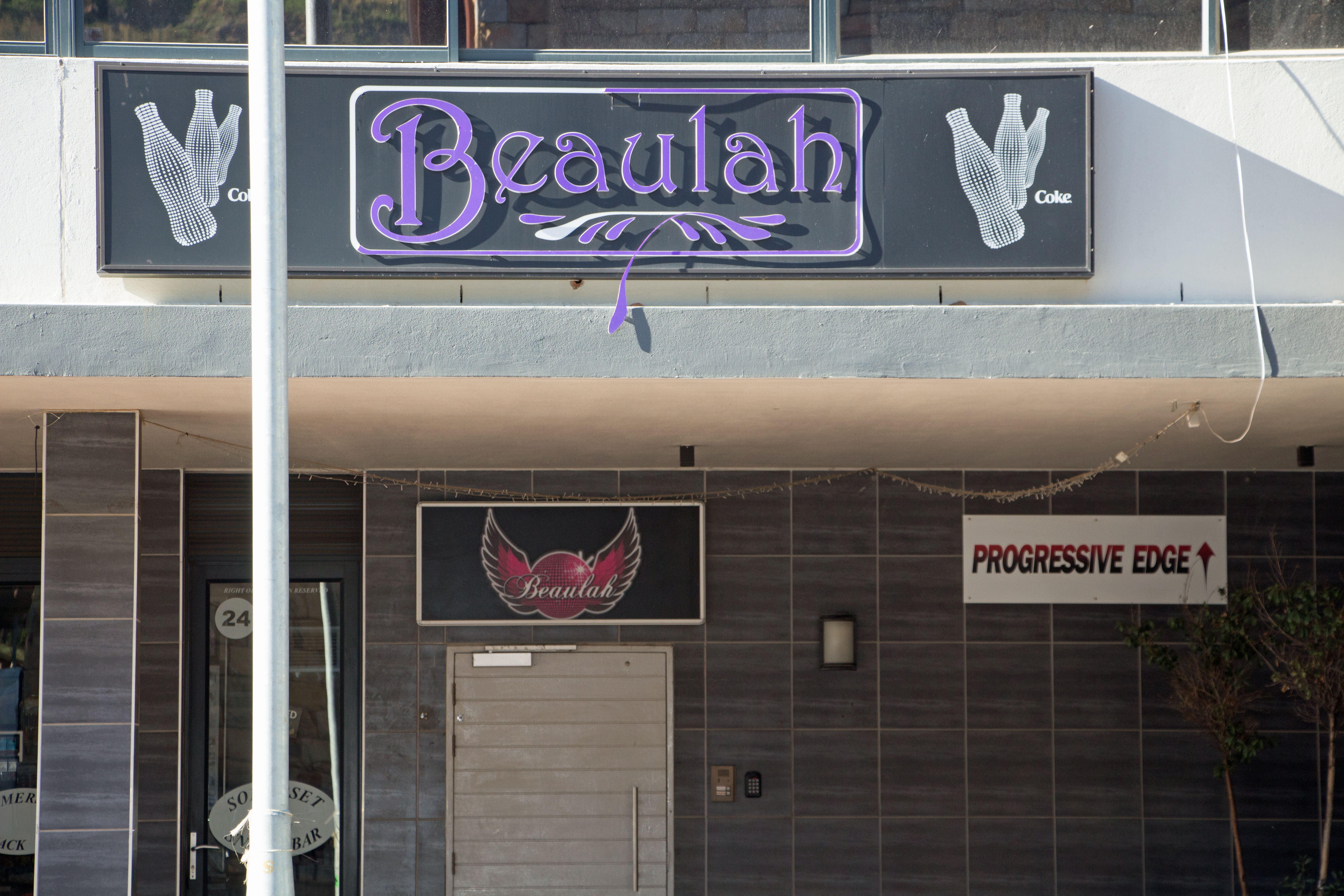 Entrance to Beaulah Bar and Progressive Edge gym (both upstairs), Somerset Road (between Cobern and Napier Streets), De Waterkant, Cape Town, South Africa. The building is undergoing major renovations. Beaulah Bar takes its name from the local gay slang word for "beautiful". Somerset Snack Bar is just visible next door.